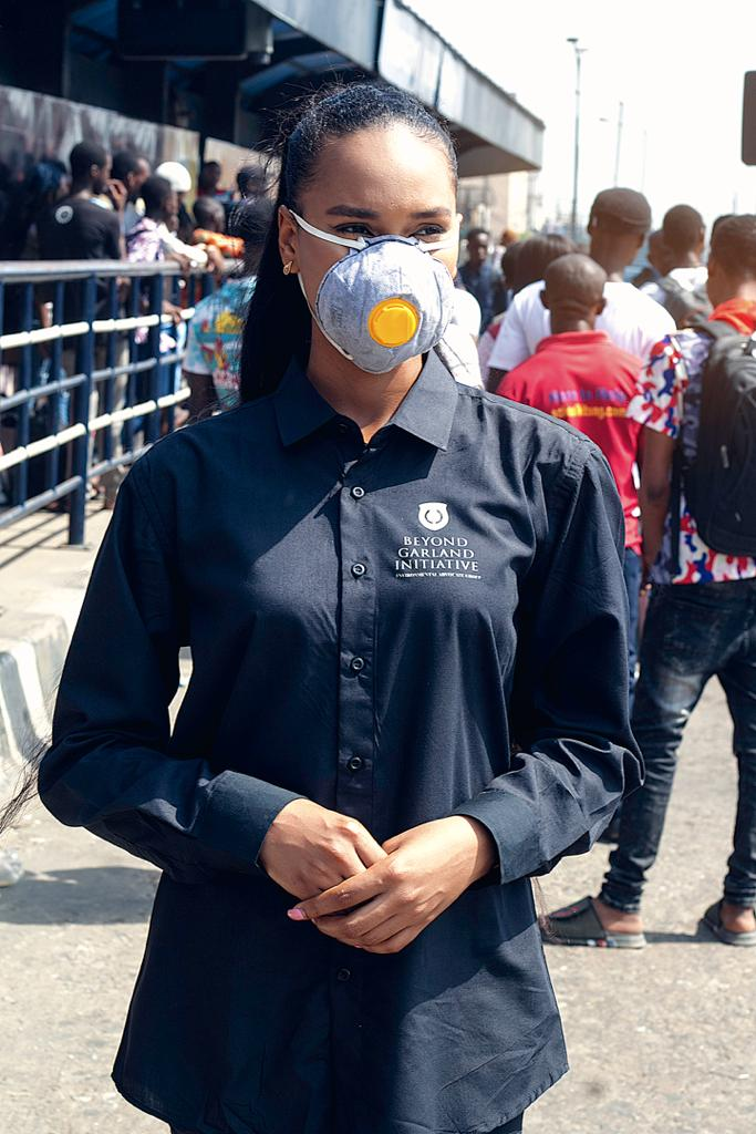 My NGO (Beyond Garland Initiative) organised a covid-19 awareness program to distribute free hand sanitizers at public transport systems in Lagos State, Nigeria